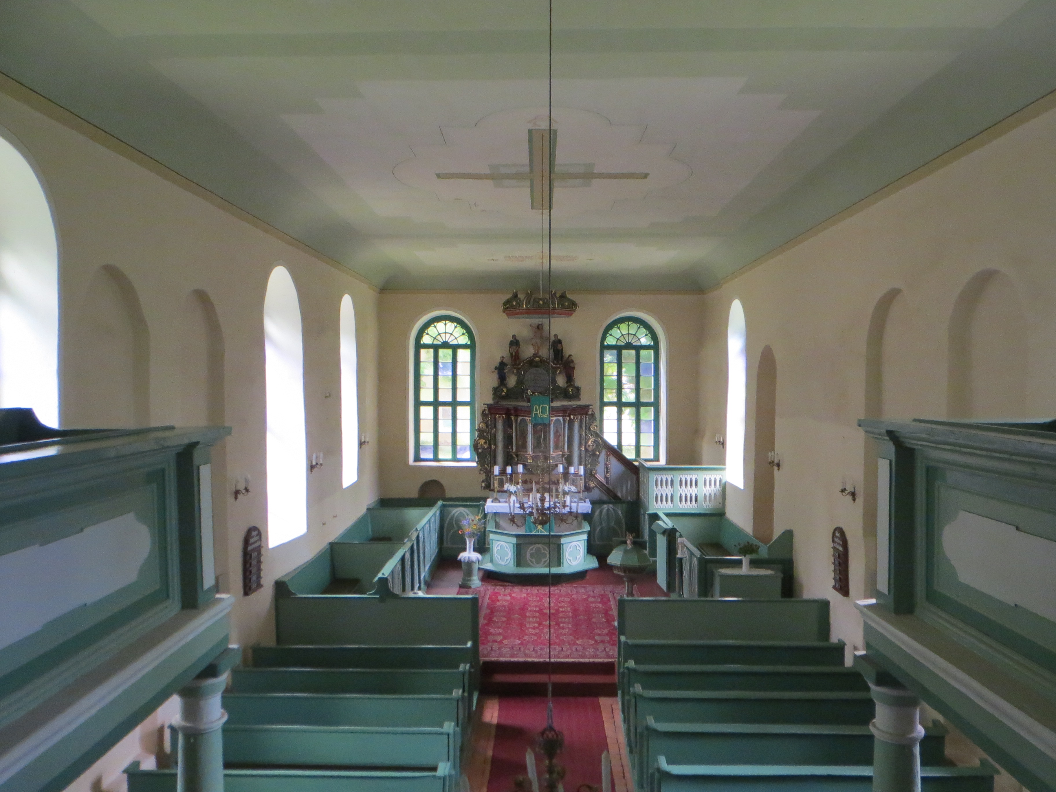 Church in Ducherow